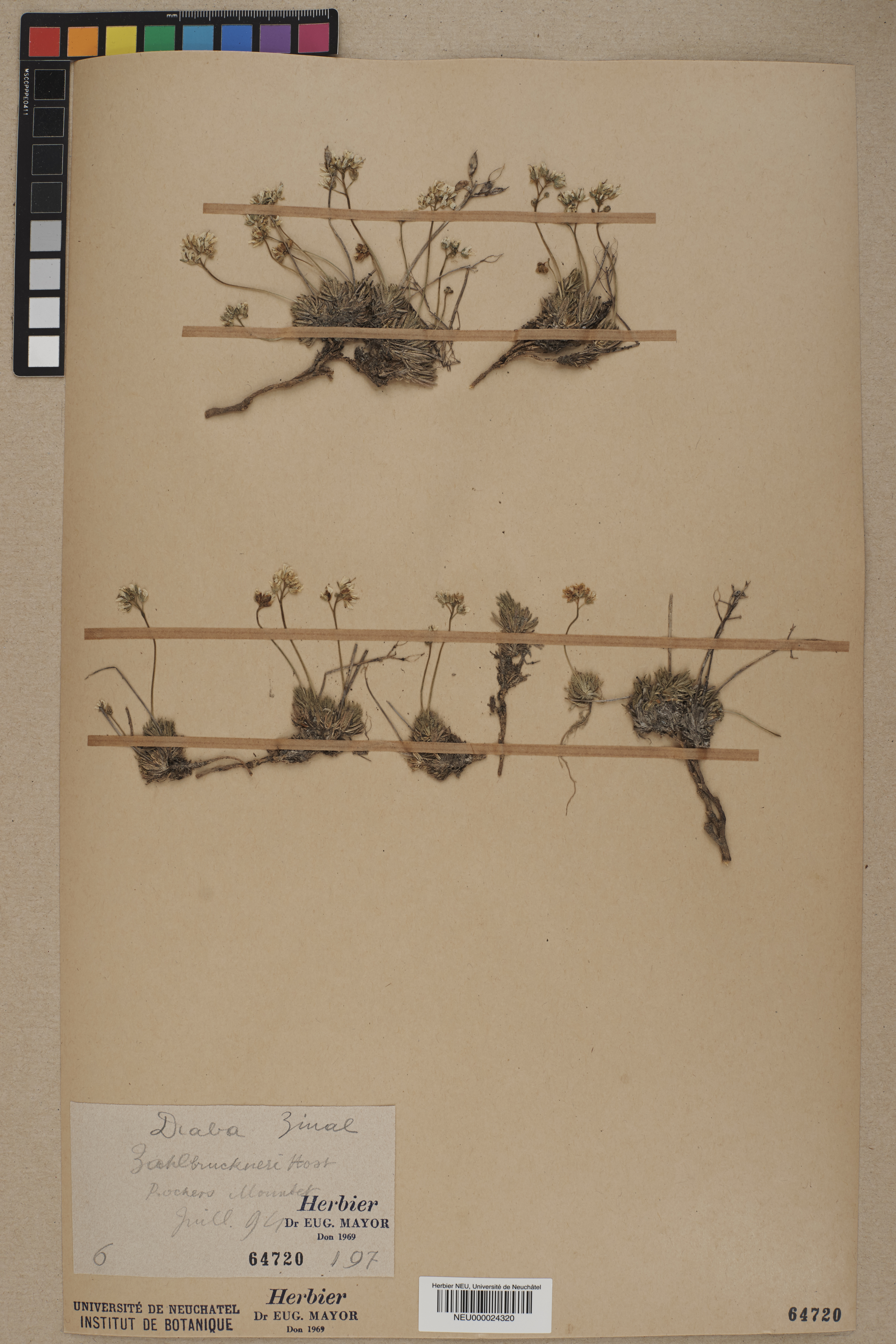 Dried pressed specimen of Draba hoppeana